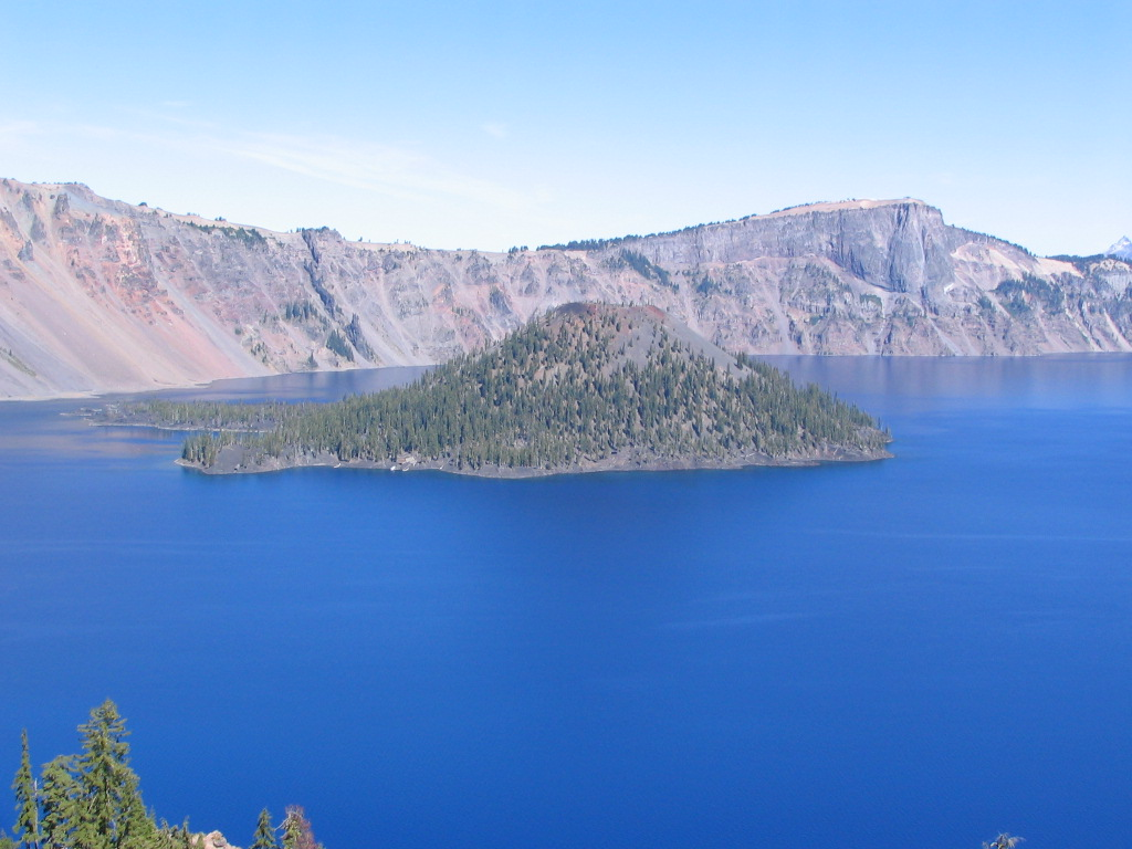 View of Wizard Island in Crater Lake National Park. Picture taken 18 September 2005.